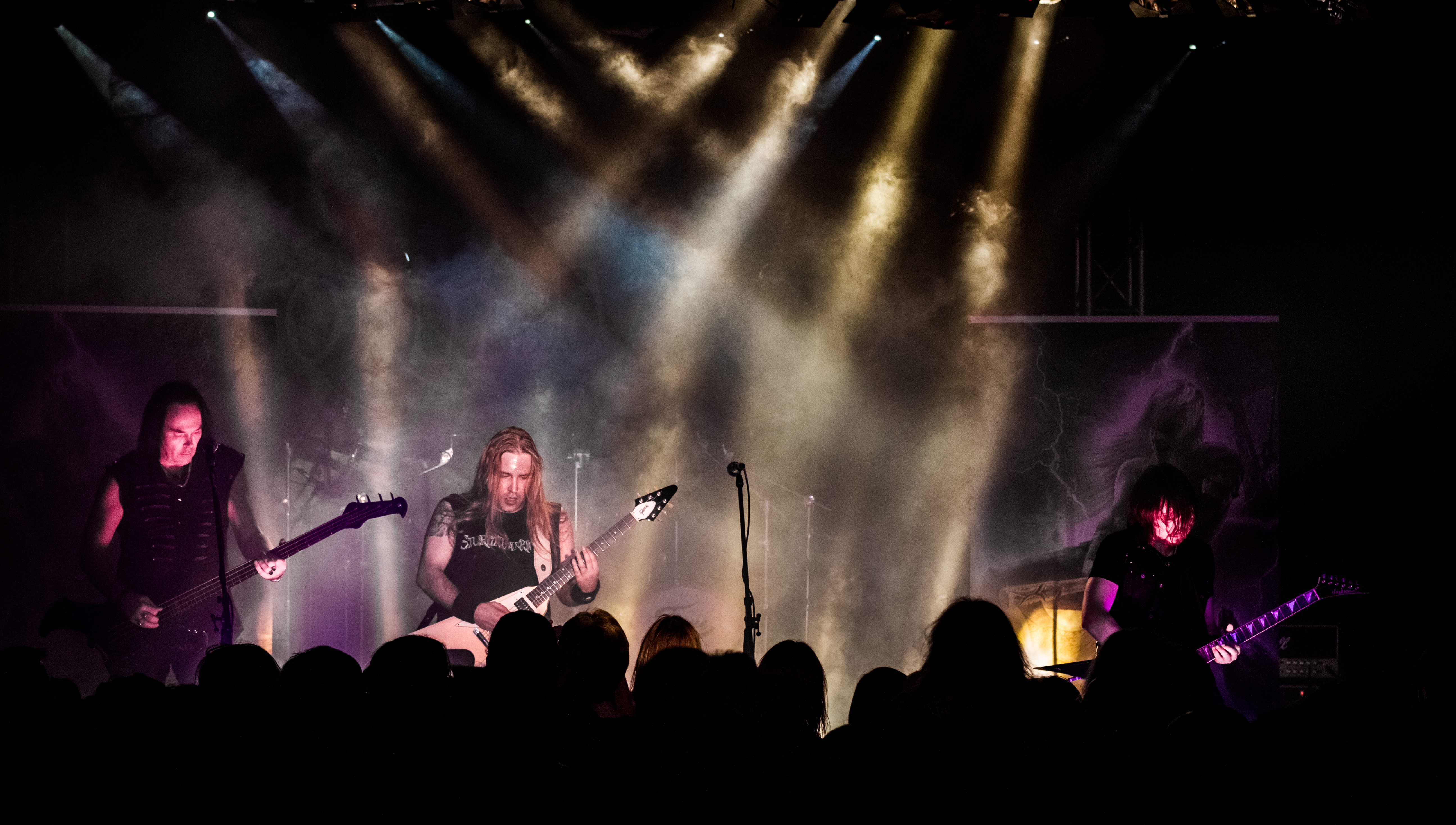 Stormwarrior - Börsencrash Festival 2015